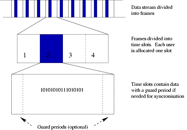 This is a diagram of TDMA framing and timeslot structure; The original of the diagram in xfig format is also available for easy editing. The diagram shows that a TDM(A) system divides it's transmssion medium into frames which repeat indefinitely. Each TDM frame is then divided into (normally equal) timeslots which are allocated to individual user. The individual users then transmit or receive only in their own timeslot. In some TDMA systems, such as the GSM radio interface, an extra guard period must be allocated at the start and end of the timeslot to allow syncronisation of the user's data transmission. In other TDM systems such as G.704 (framing over an E1), no such guard period is needed since the system is synchronised using other, accurate means. In the case of G.704, there is only one transmitter and receiver per E1 (so no need for syncronisation between users) and the entire frame is synchronised using the first timeslot (of 32).